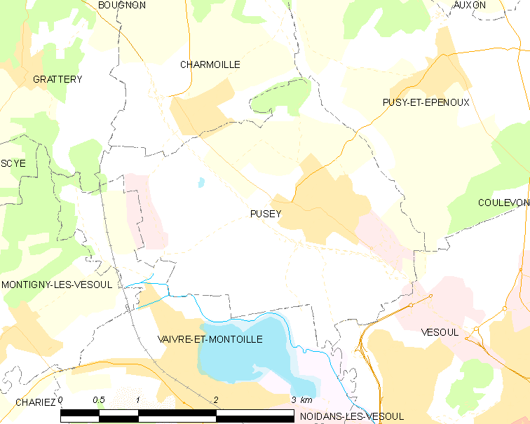 Map of French municipality